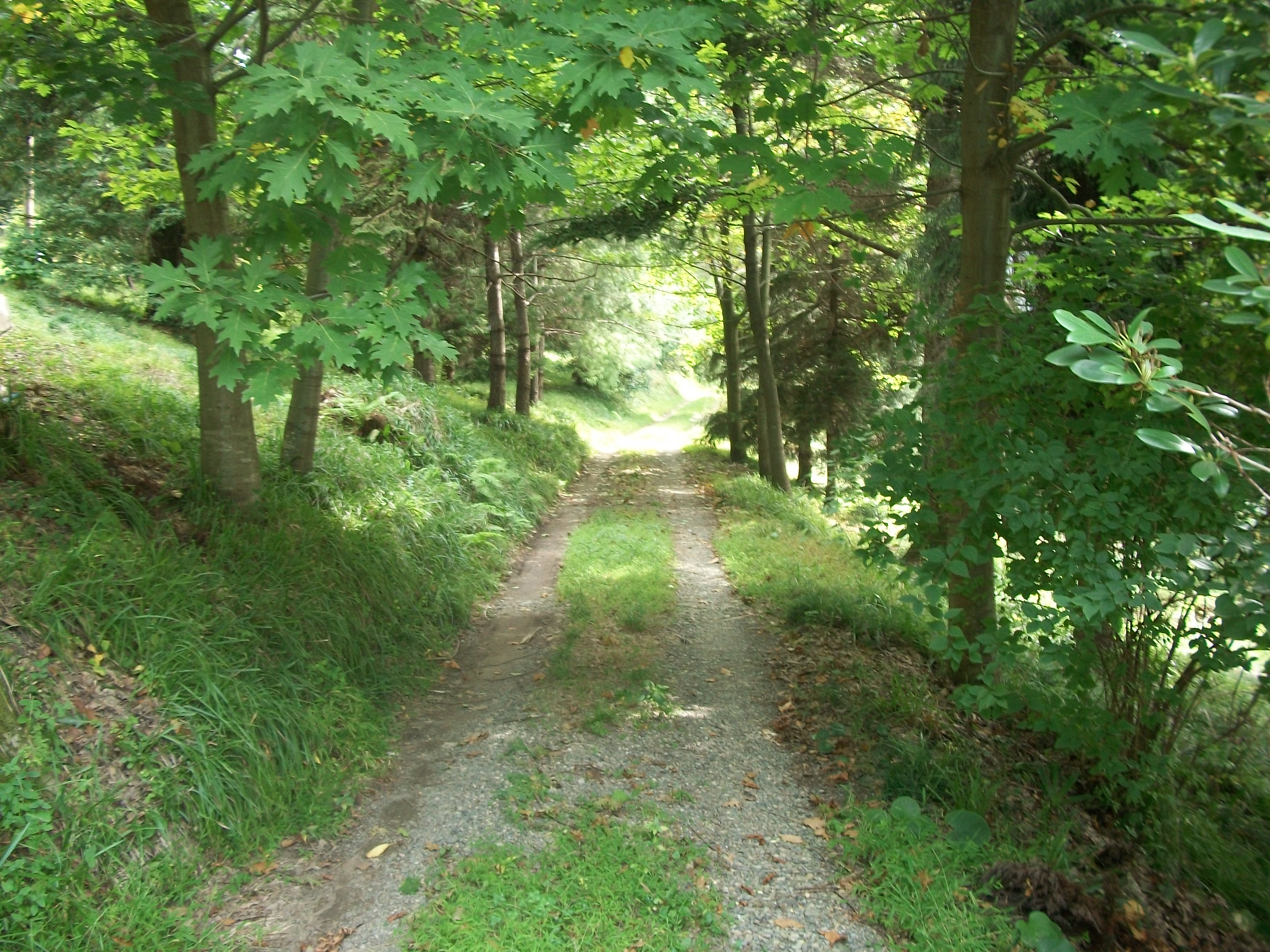 Plants in the Batumi Botanical garden